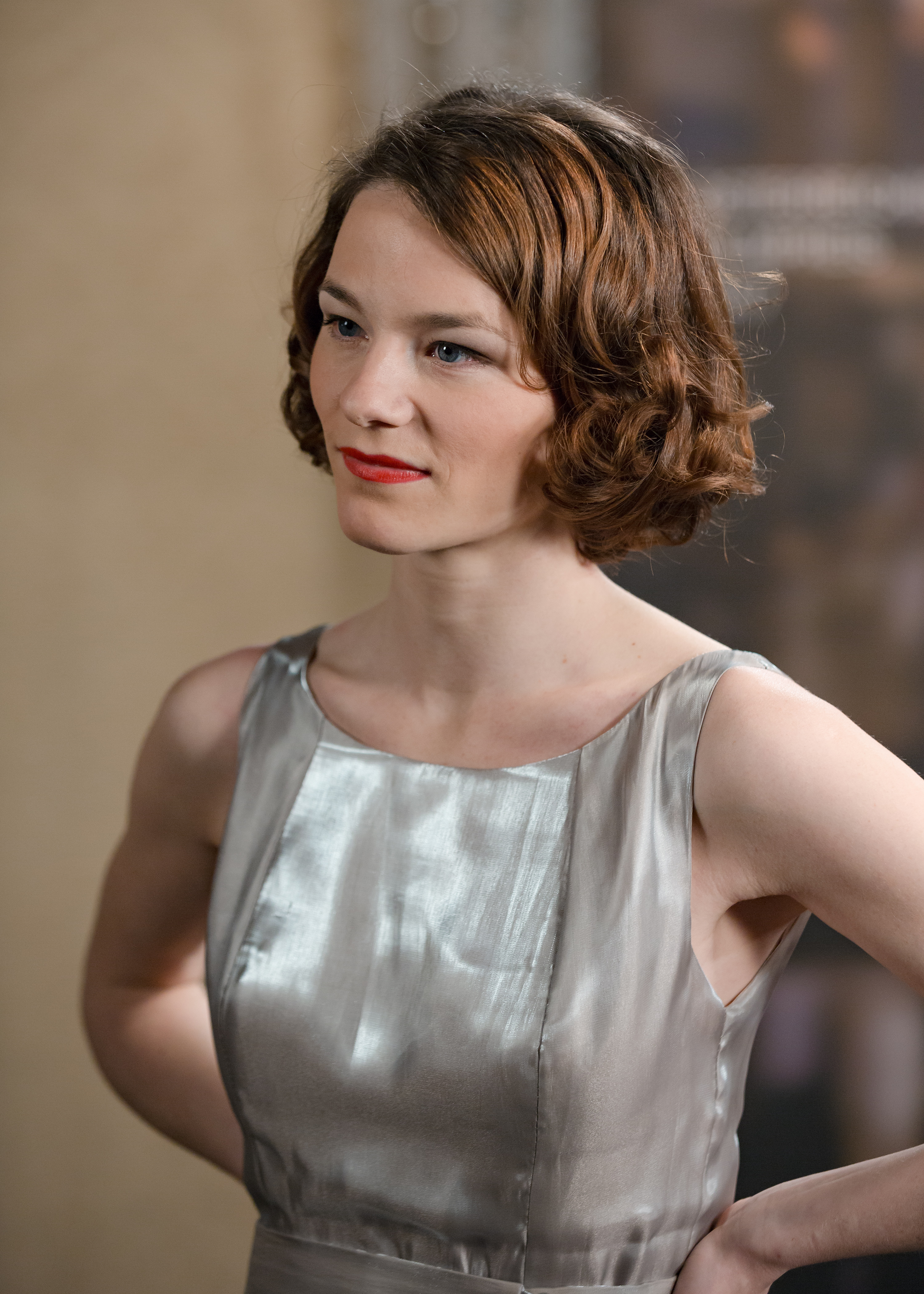 Valerie Pachner, actress in Egon Schiele: Tod und Mädchen, at the Austrian Film Awards 2017 (Rathaus, Vienna,Austria).